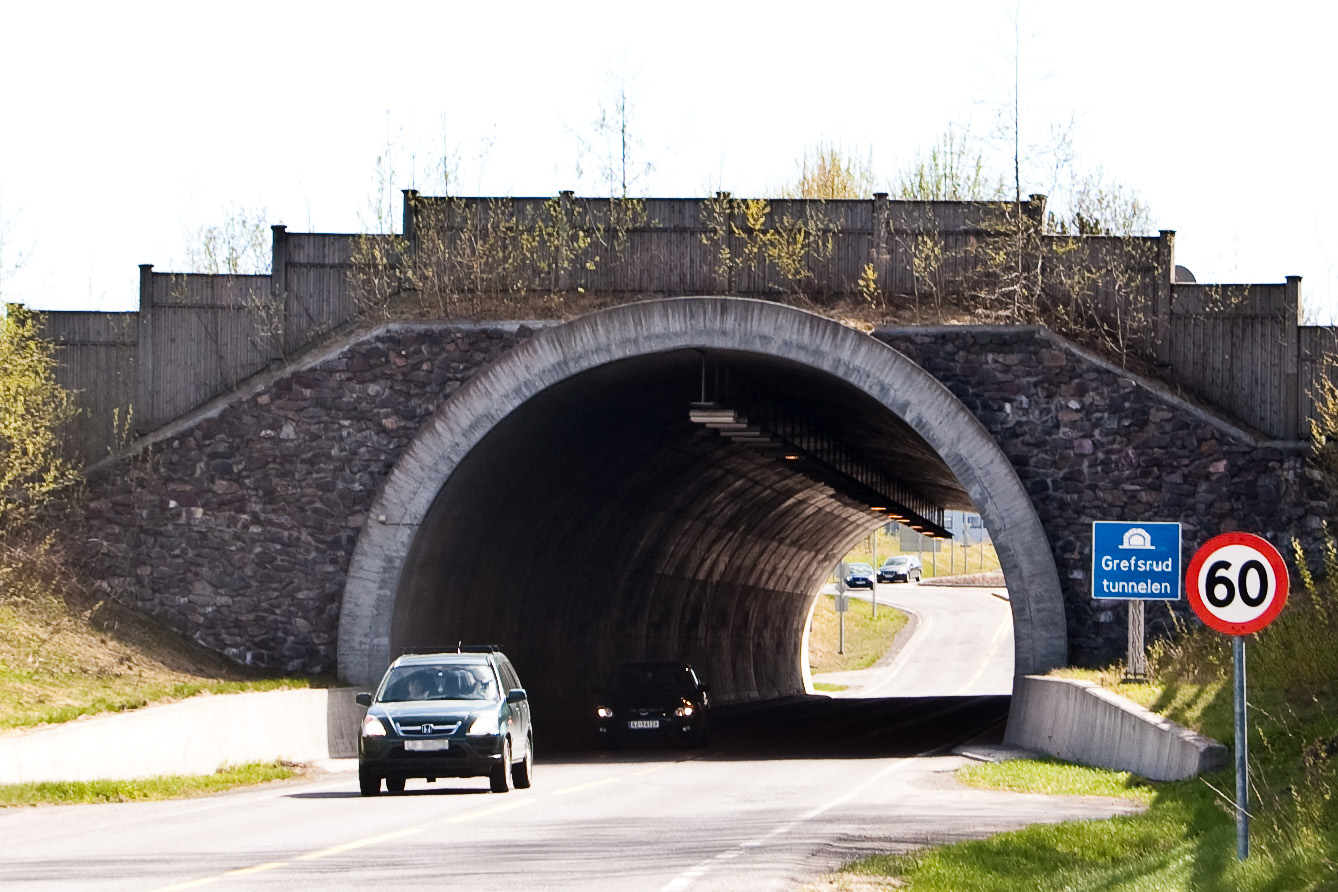 Grefsrud tunnel, Holmestrand, Vestfold, Norway. Seen from the north.